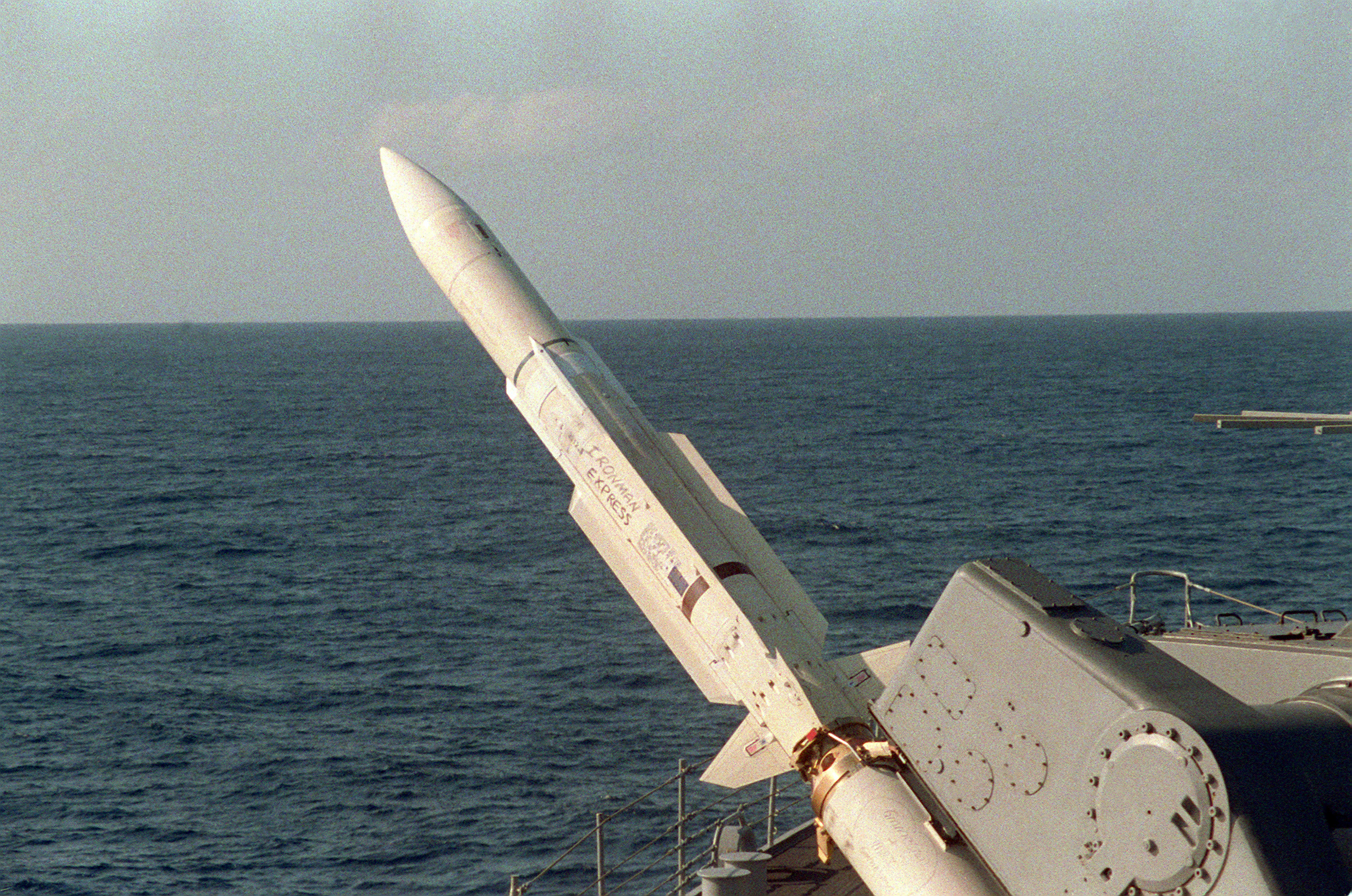 A view of an RIM-67B Standard (SM-2ER) surface-to-air missile on its launch platform aboard a guided missile cruiser.